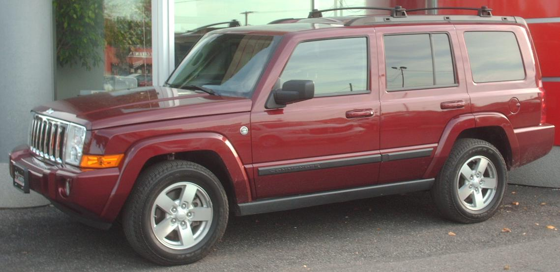 2006-present Jeep Commander photographed in Montreal, Quebec, Canada.